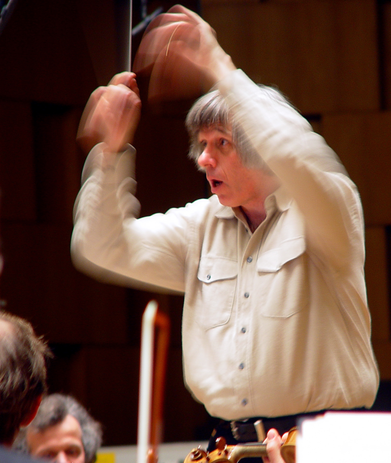 Israeli conductor Israel Yinon in rehearsal. NDR Hannover.